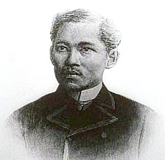 The Philippine National Archives T.M. Kalaw St. Ermita, Manila 2801 Metropolitan Manila, Philippines Website: The Philippine National Historic Society T.M. Kalaw St. Ermita, Manila 2801 Metropolitan Manila, Philippines Website